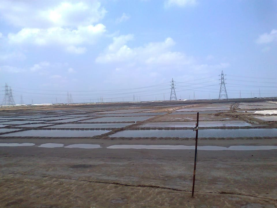 Rann of Kutch